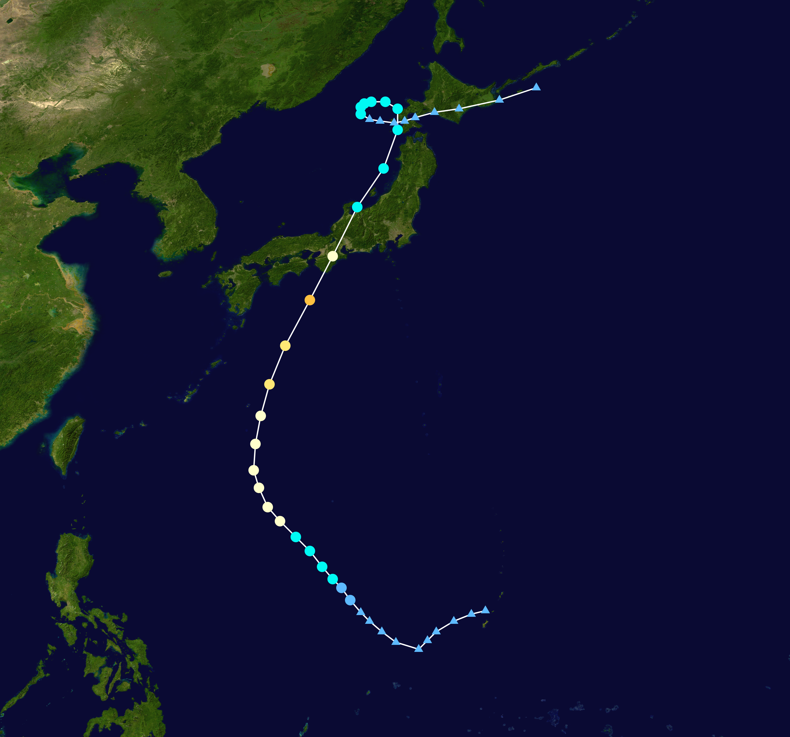 Track map of Typhoon Helen of the 1972 Pacific typhoon season. The points show the location of the storm at 6-hour intervals. The colour represents the storm's maximum sustained wind speeds as classified in the Saffir–Simpson hurricane wind scale (see below), and the shape of the data points represent the nature of the storm, according to the legend below. Saffir–Simpson hurricane wind scale Tropical depression≤38 mph≤62 km/h Category 3111–129 mph178–208 km/h Tropical storm39–73 mph63–118 km/h Category 4130–156 mph209–251 km/h Category 174–95 mph119–153 km/h Category 5≥157 mph≥252 km/h Category 296–110 mph154–177 km/h Unknown Storm typeTropical cycloneSubtropical cycloneExtratropical cyclone / Remnant low / Tropical disturbance